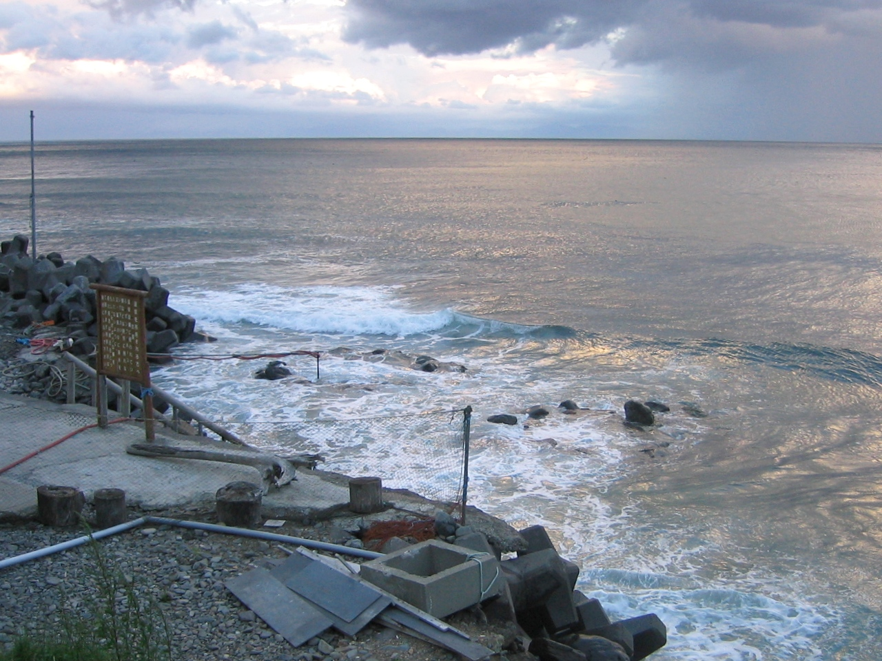 Seseki Onsen, Rausu, Hokkaido, Japan